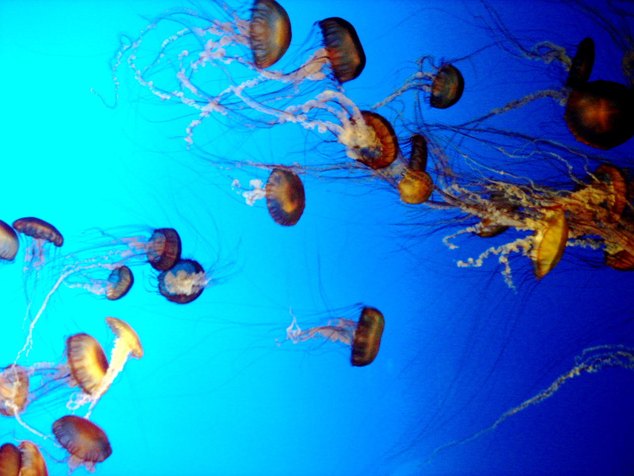 Sea nettles at Monterey Aquarium's Outer Bay Exhibit.